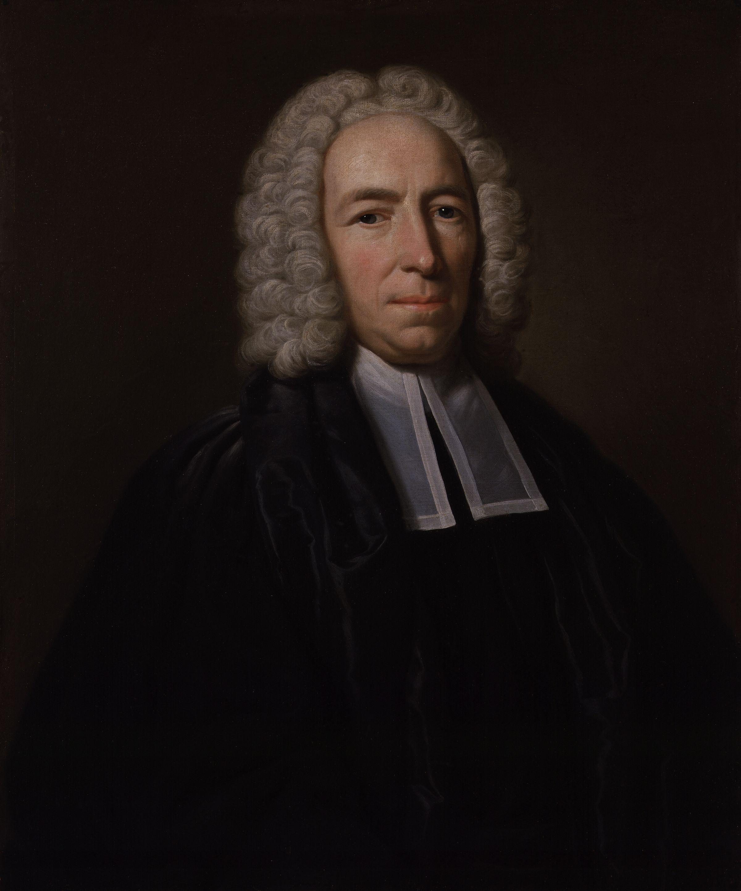 Conyers Middleton, by John Giles Eccardt (floruit 1740-1779). All images in this batch have a known author with unknown death date, but according to the NPG's website the author was floruit (known to be active) prior to 1859, and so is reasonably presumed dead by 1939.